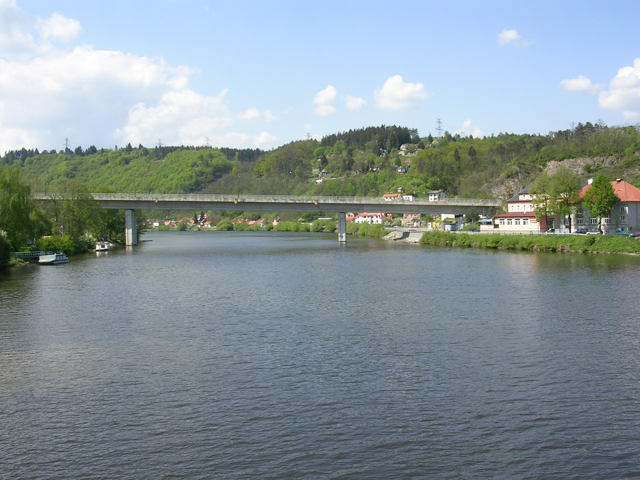 Davle, the Czech Republic.